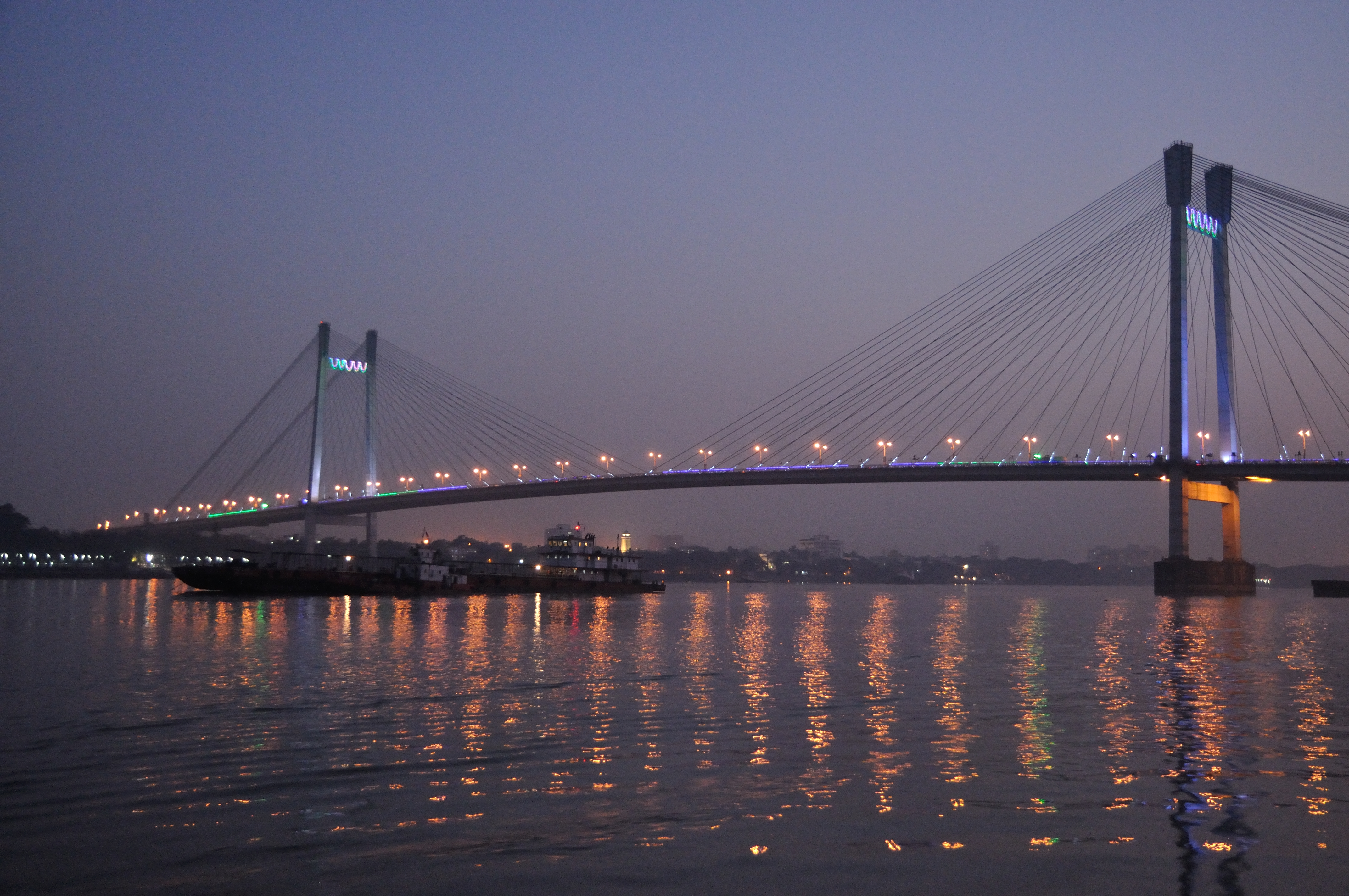 Photographed in Kolkata.